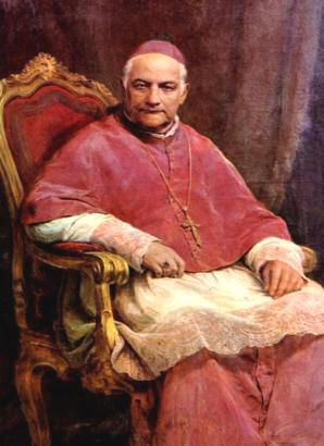 Msg Jacinto Vera, First Bishop of Montevideo, 1878